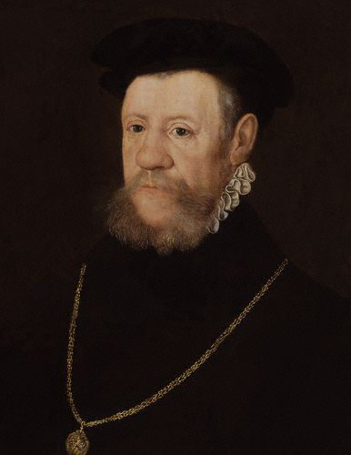 Portrait of Henry FitzAlan, 12th Earl of Arundel (c.1511-1580)